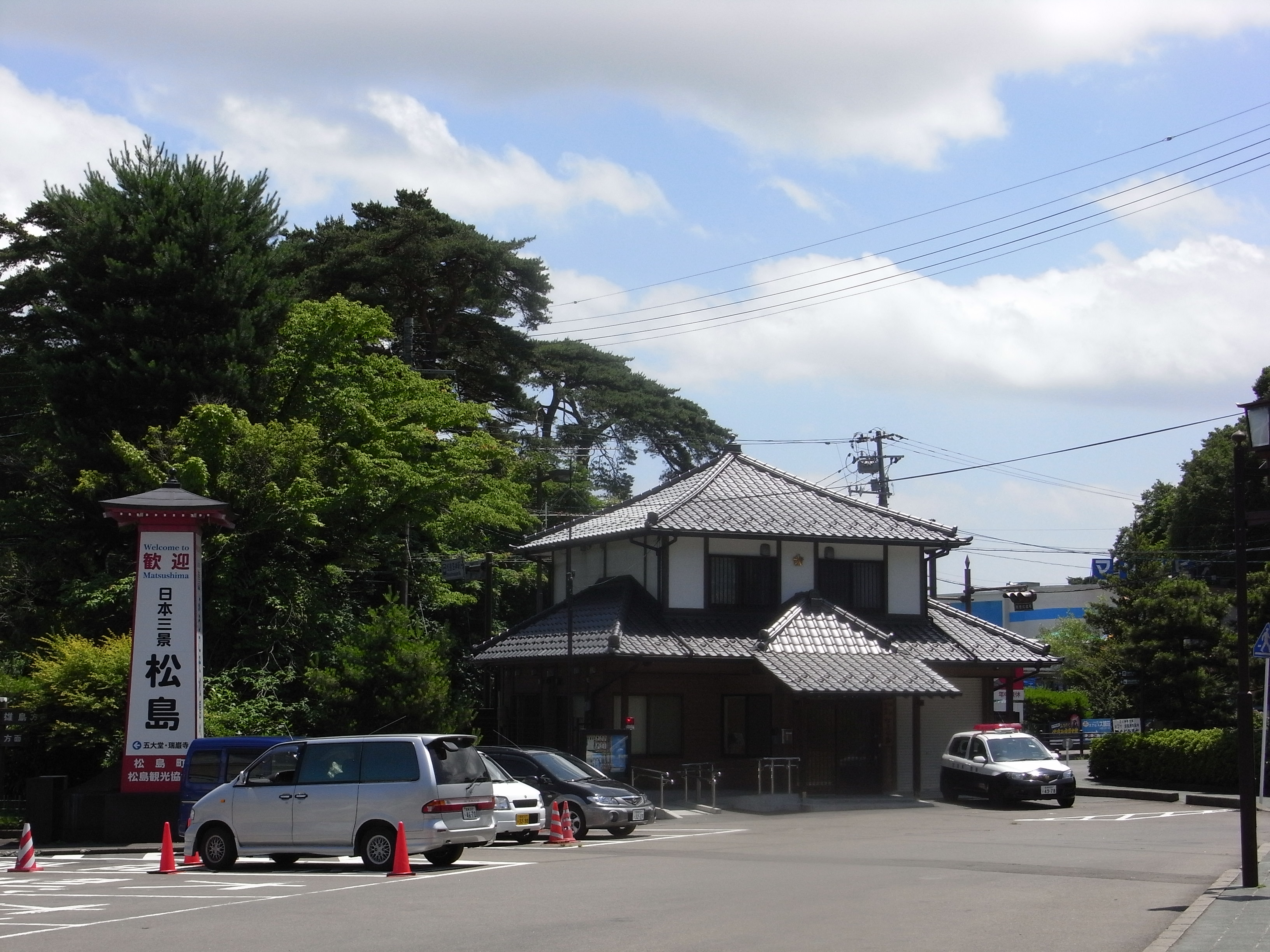 Matsushima Koban.Koban_(police_box) in Matsushima, Matsushima, Miyagi prefecture, Japan.